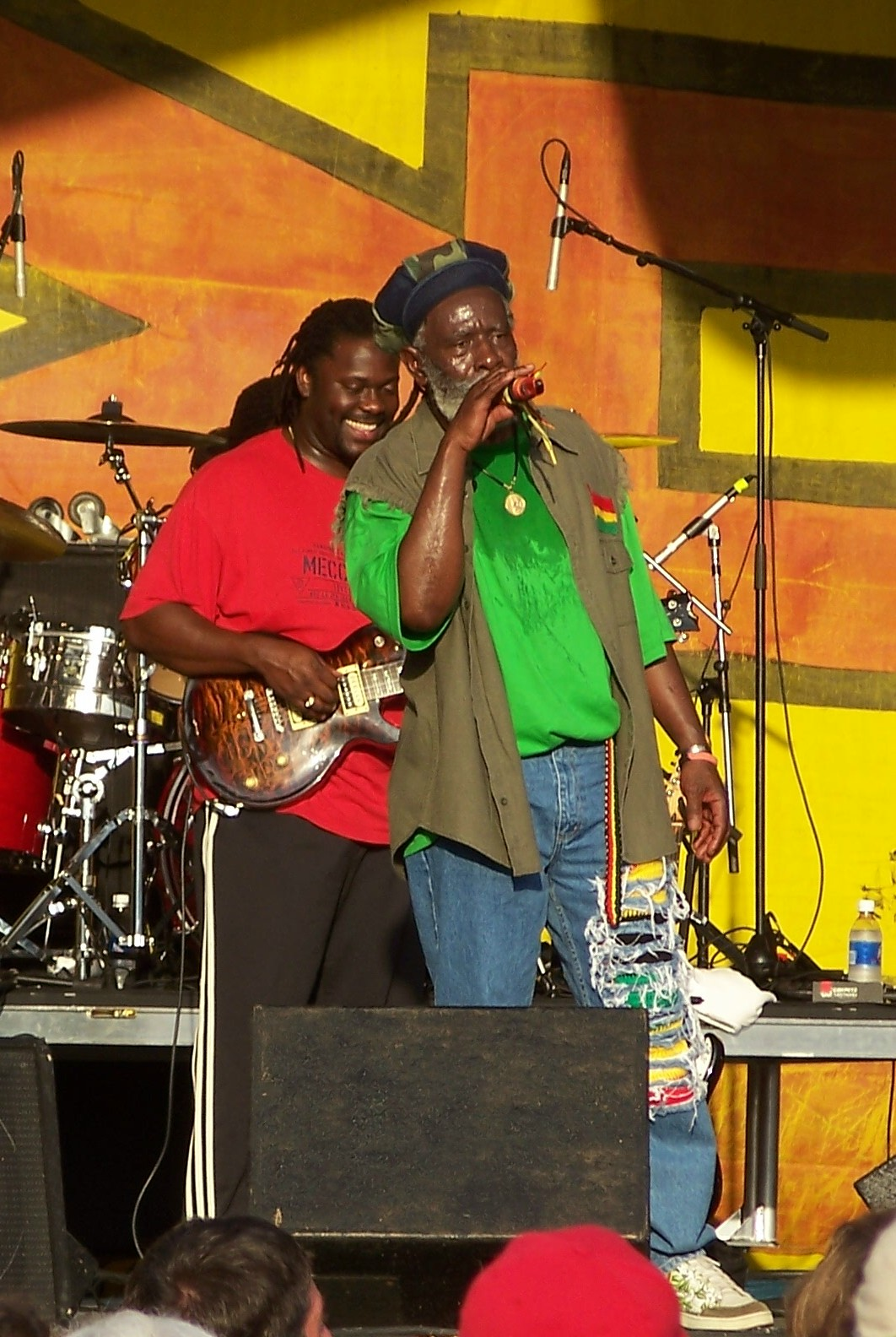 Burning Spear performs at the Reggae On The Rock, en:25 August 2013 en:2013. Burning Spear performs at the Reggae On The Rocks , 25 August 2013.